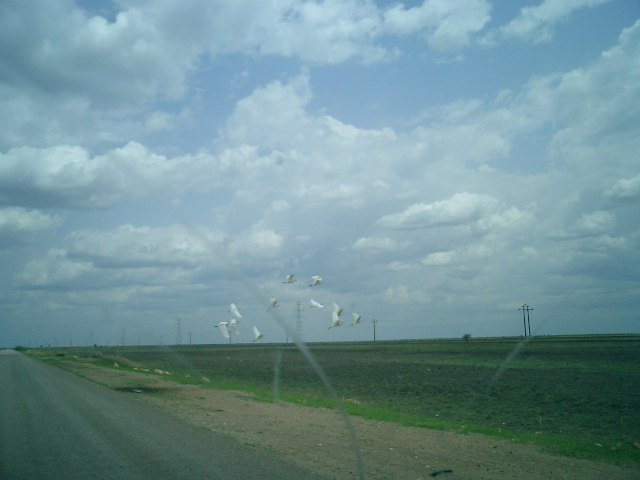 South of Sennar - to Singah